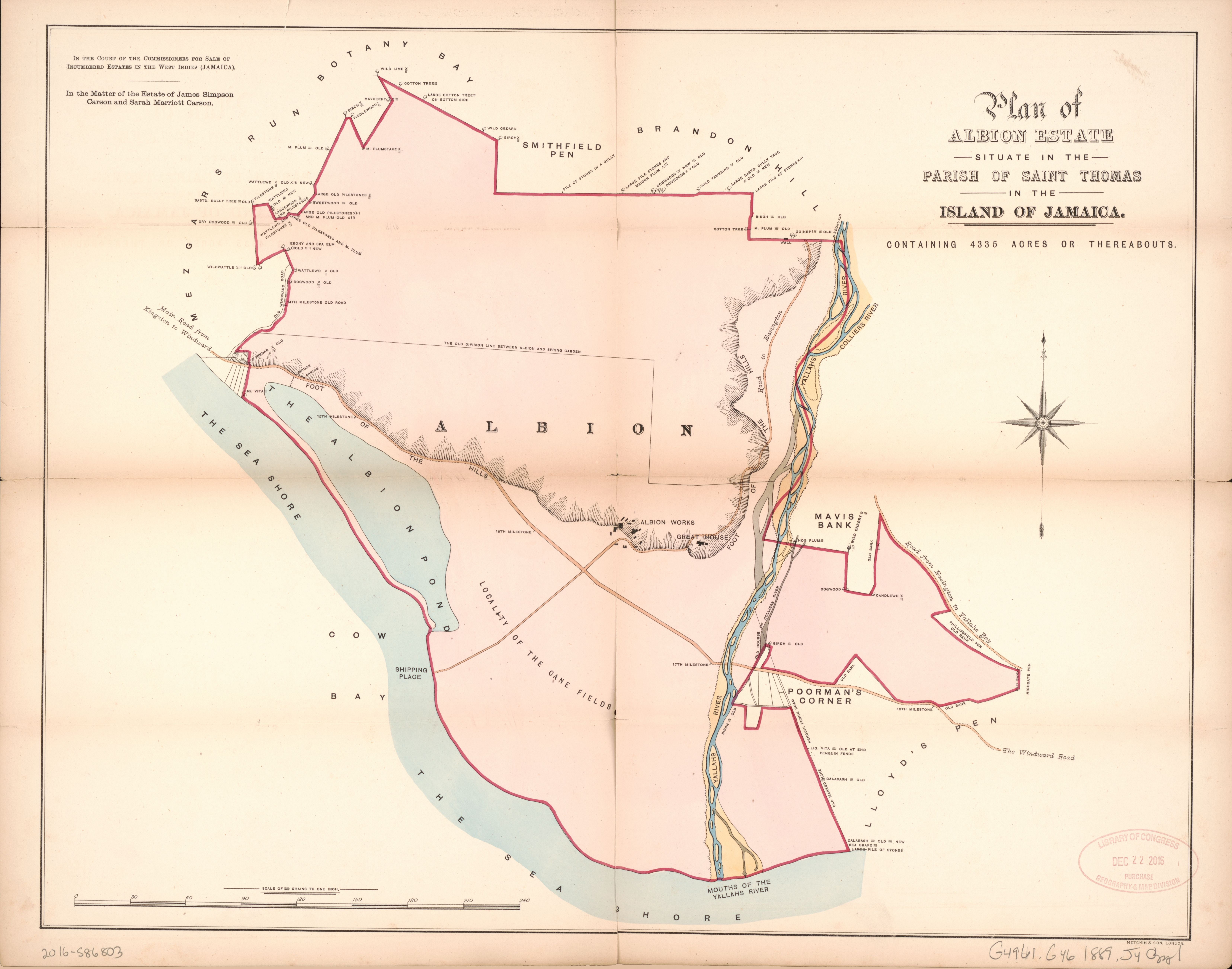 Title from accompanying text. "In the matter of the Estate of James Simpson Carson and Sarah Marriott Carson." "Sale on Wednesday, the 15th day of May, 1889." Accompanied by text: In the Court of the Commissioners for Sale of Incumbered Estates in the West Indies, Jamaica. ([4] unnumbered pages : cadastral data, annotations ; 45 cm, folded to 28 x 12 cm). "At the Auction Mart, Tokenhouse Yard, in the city of London, on Wednesday, the 15th day of May, 1889, at one o'clock precisely. The purchaser will have an indefeasible Parliamentary Title under the Seal of the Court." Copy imperfect: Cover detached, fragile, use-worn, torn along fold lines. Available also through the Library of Congress Web site as a raster image.